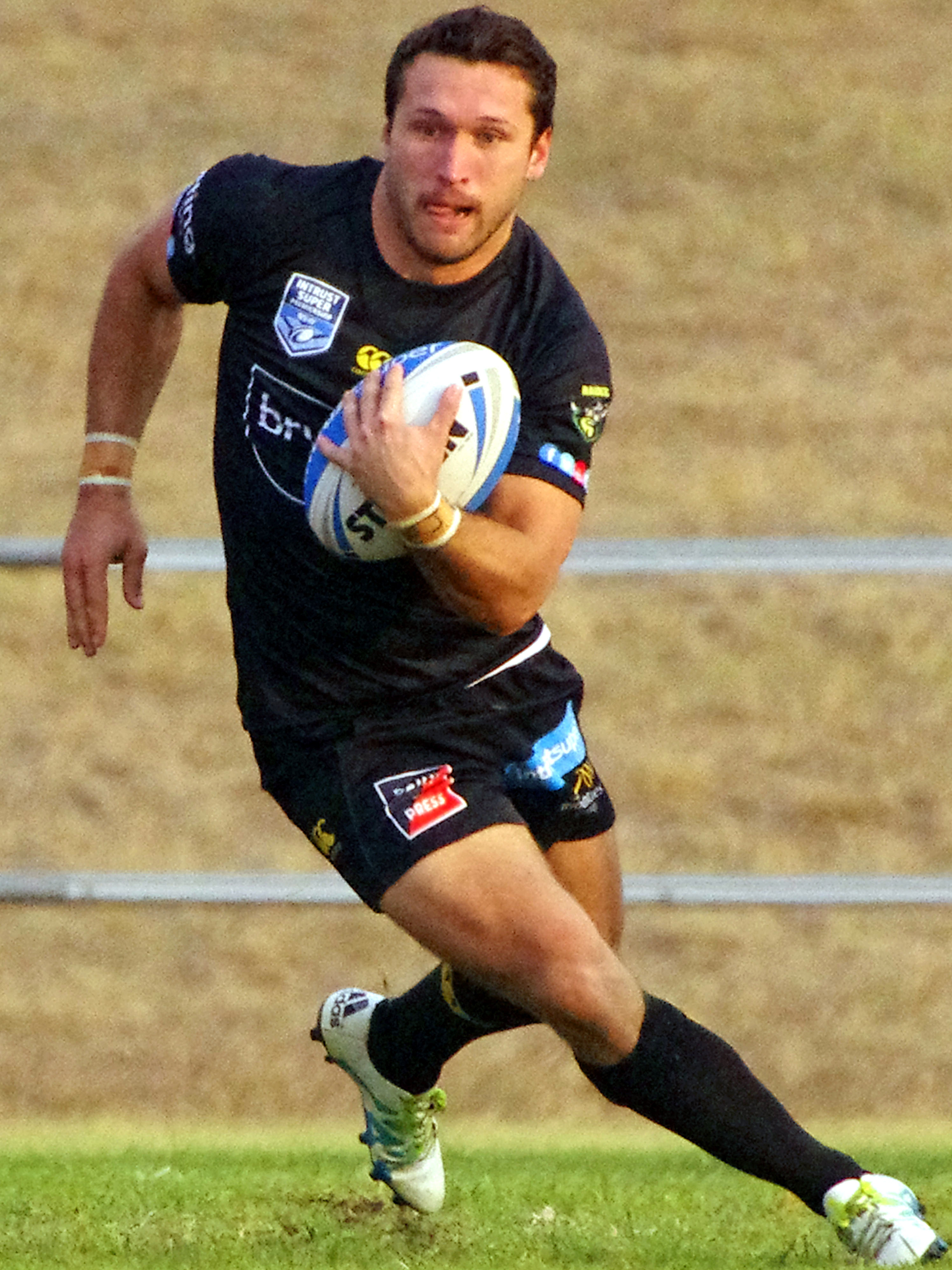 Zac Santo